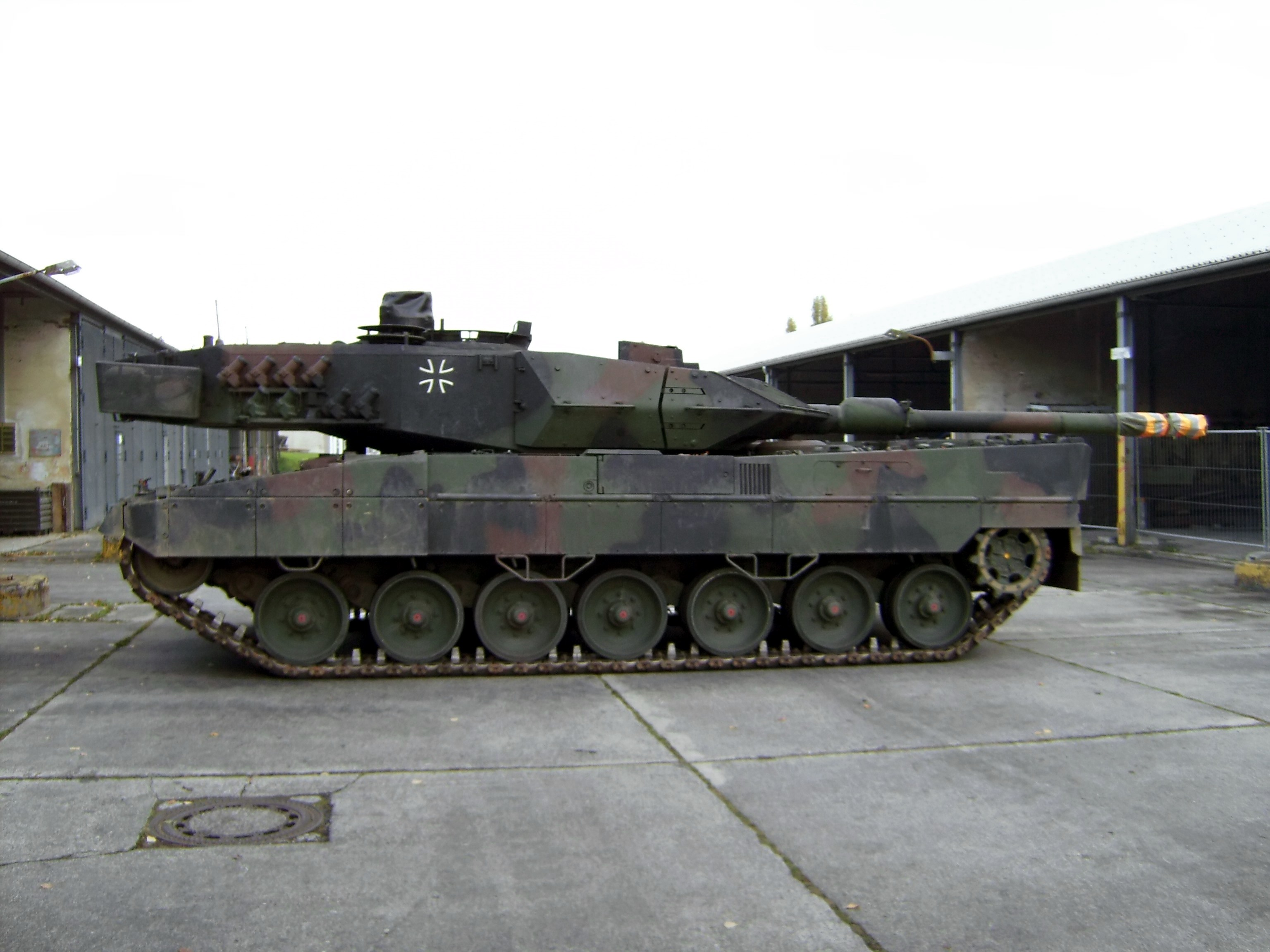 Leopard 2A6M left